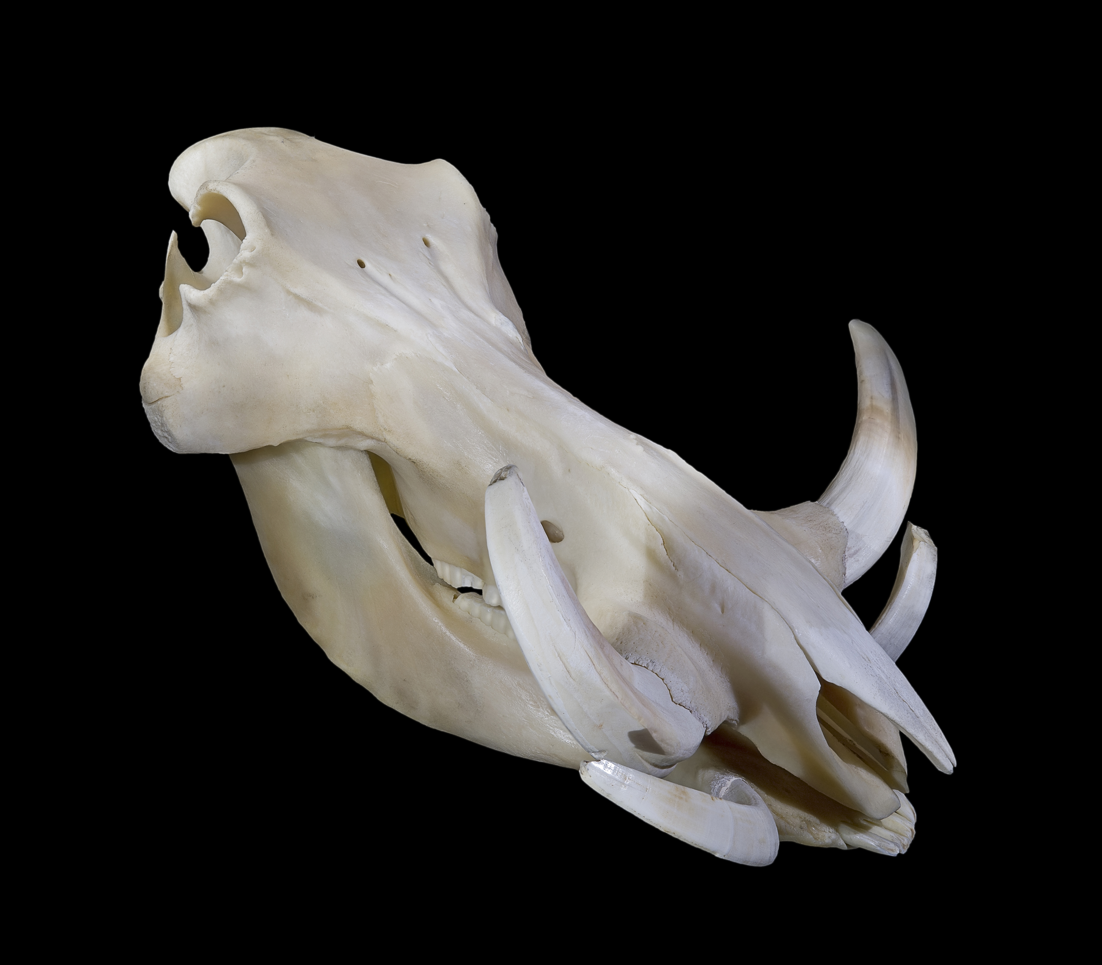 Skull of Warthog (Phacochoerus africanus) – Male Locality: Senegal Size: 40 cm